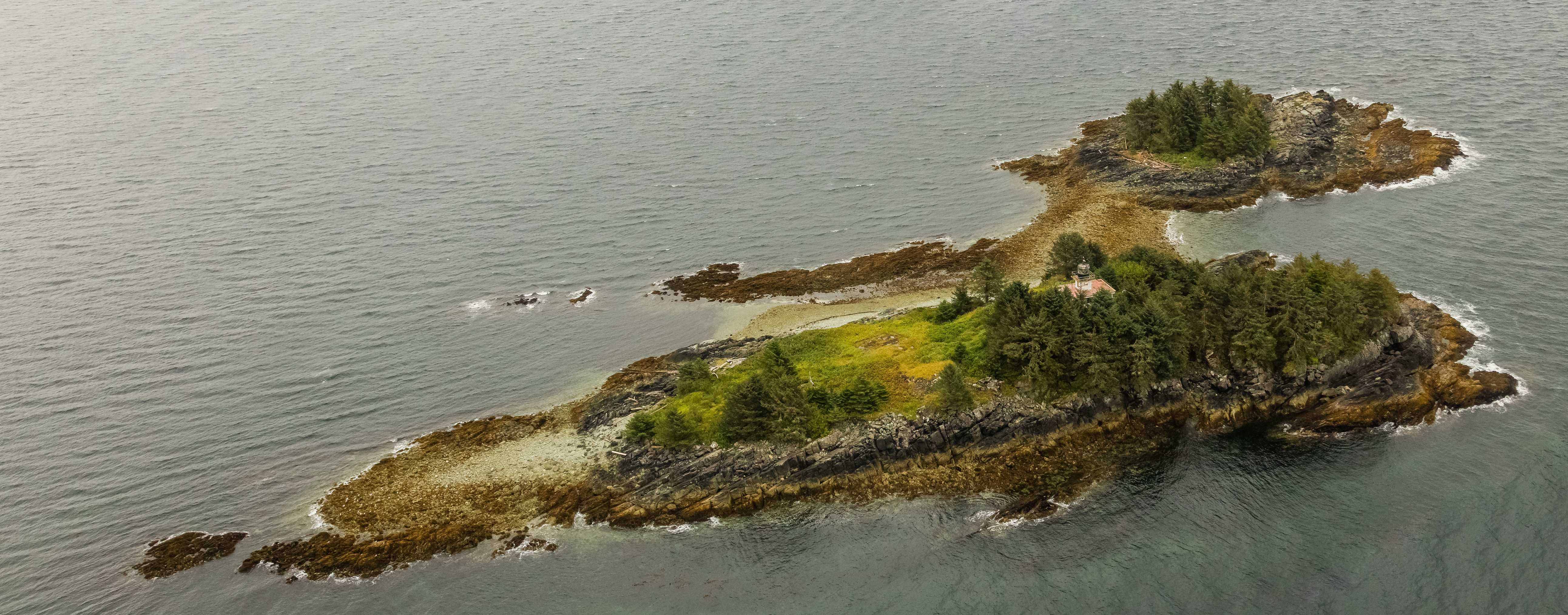 Guard Island Lighthouse, Ketchikan, Alaska, United States